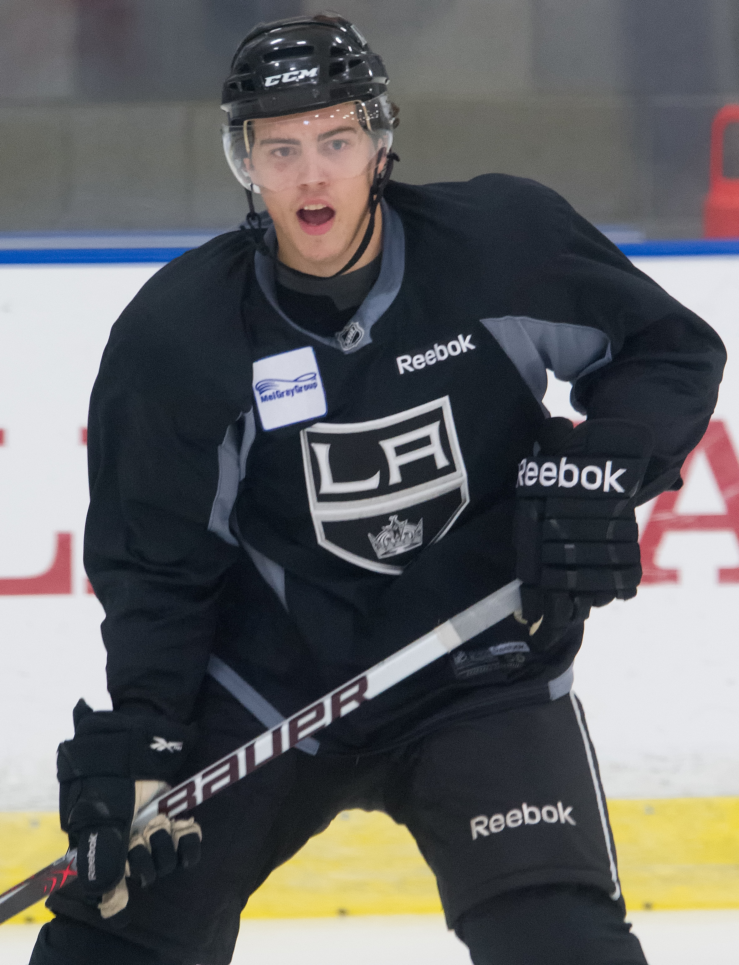 LA Kings Development Camp